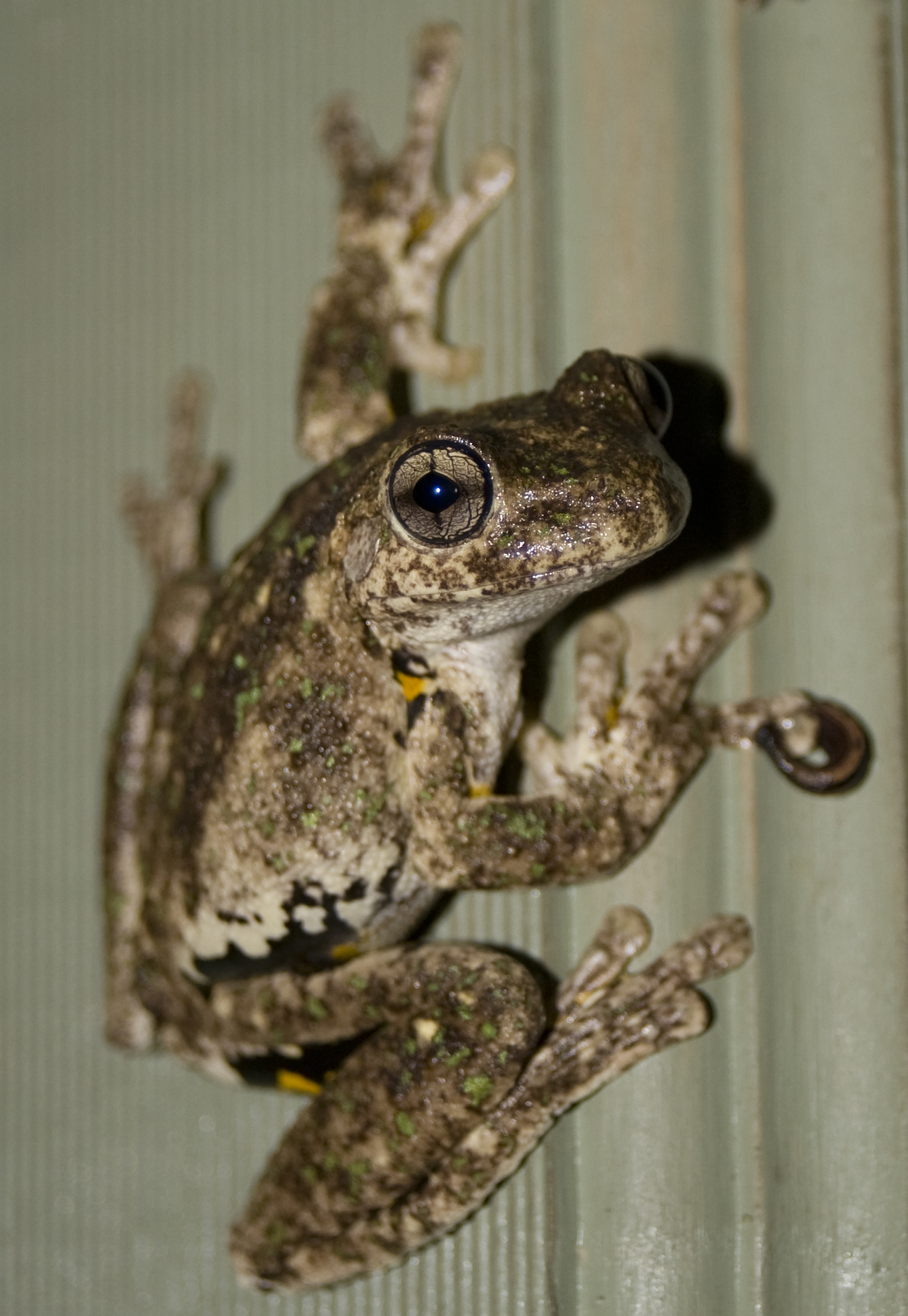 Perons Tree Frog with a leech attached